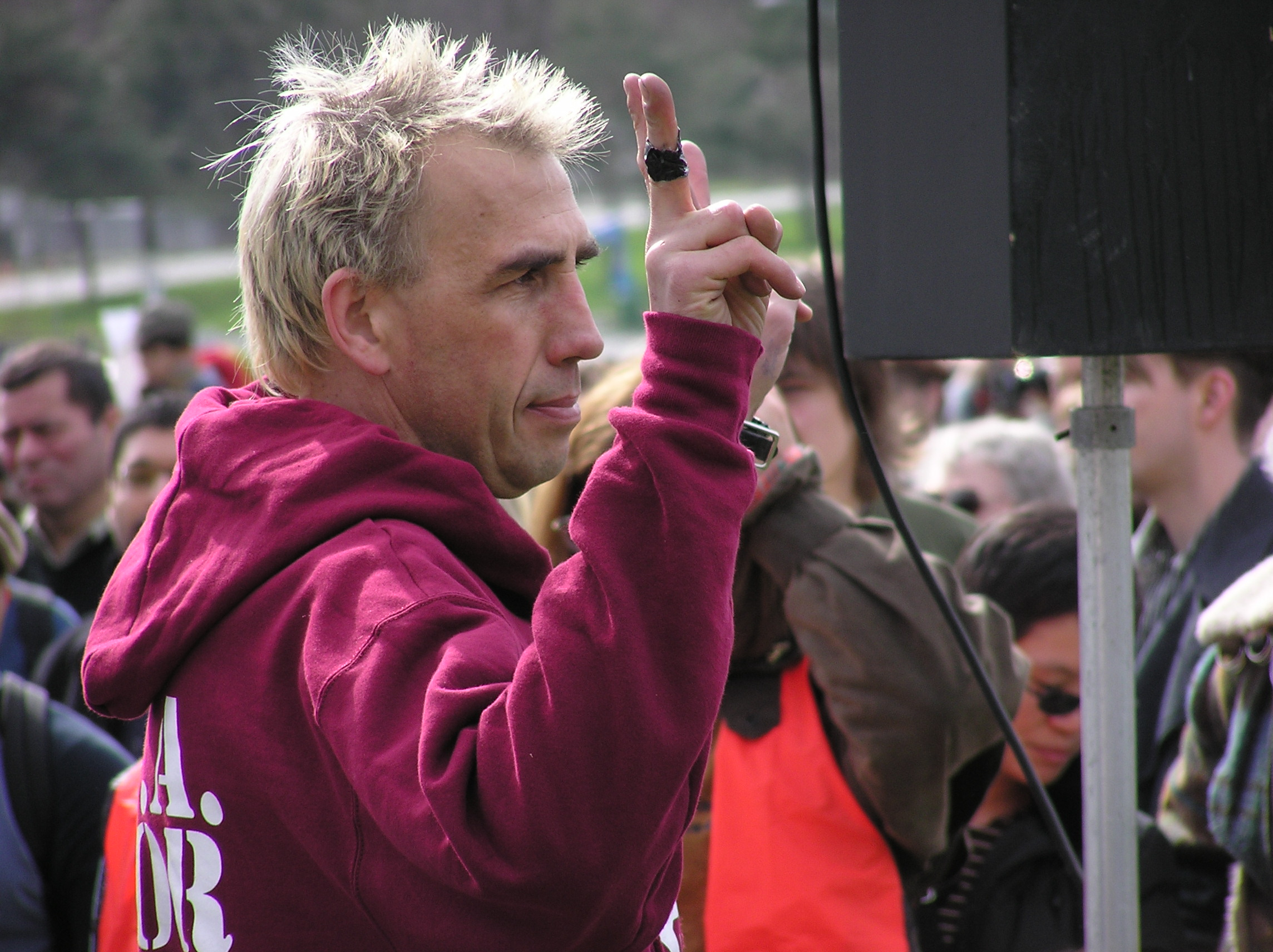 Joey "Shithead" Keithley in Vancouver, BC giving the peace sign.